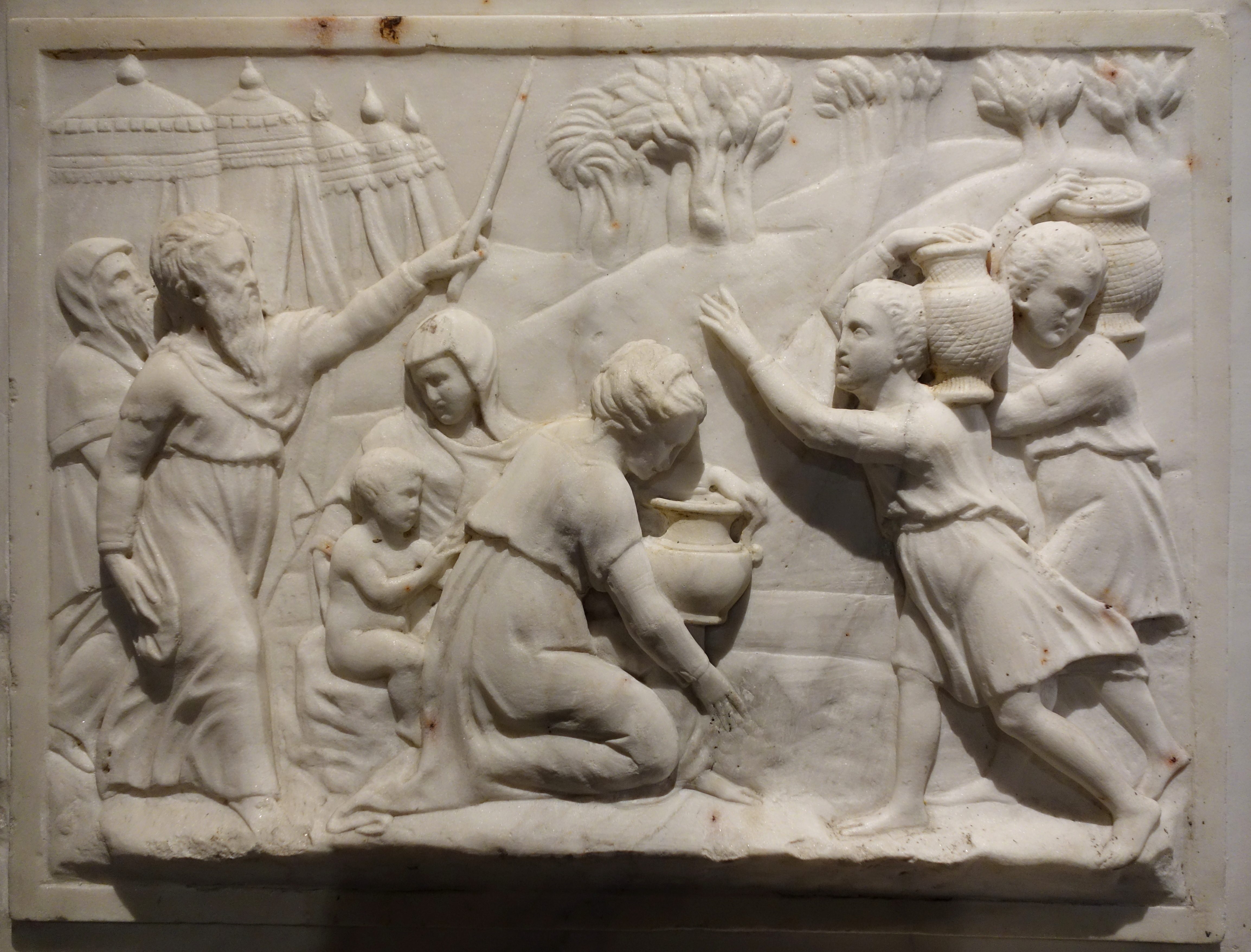 Exhibit in Museo Diocesano, Via Tommaso Reggio, 20 r, Genoa, Italy. All artwork in this museum is old enough so that it is in the public domain.